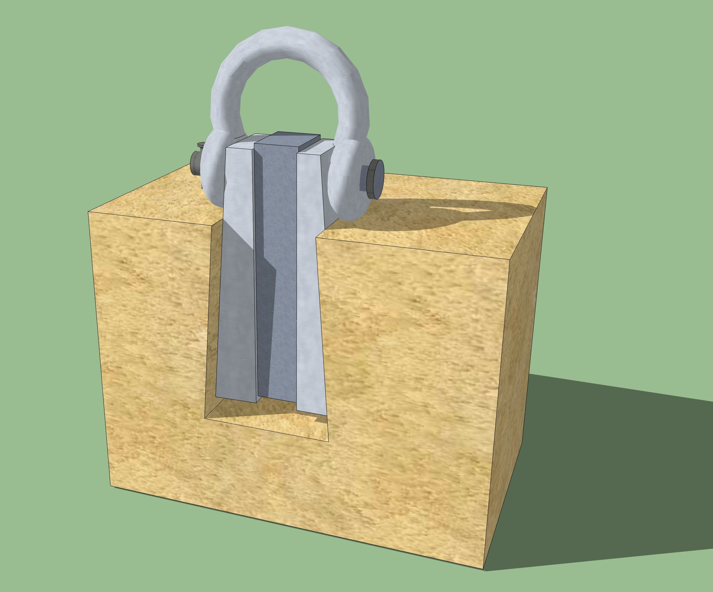 This is a drawing of Saint Peter's keys, a device to lift stone blocks. It is also known as a "Roman three-legged lewis", "three-legged lewis", "Wilson bolt", and "dovetailed lewis". The entire thing fits into a dovetailed seating in the top of a building stone. It is made from three pieces of rectangular-section 13 mm-thick steel (legs) held together with a shackle, allowing connection to a lifting hook. The middle leg is square throughout its length. The outer legs are thinner at the top, flaring towards the bottom. Held together, the three legs form a dovetail shape. The lewis hole seating is undercut (similar to a chain-linked lewis hole) to match its profile. The first outer leg is inserted into the lewis hole, followed by the second outer leg. The inner (parallel) leg is inserted last, pushing the outer legs into contact with the inside of the lewis hole. The shackle is unbolted, placed over the legs, and the bolt fastened through both the shackle eyes and the eye in the top of each leg.